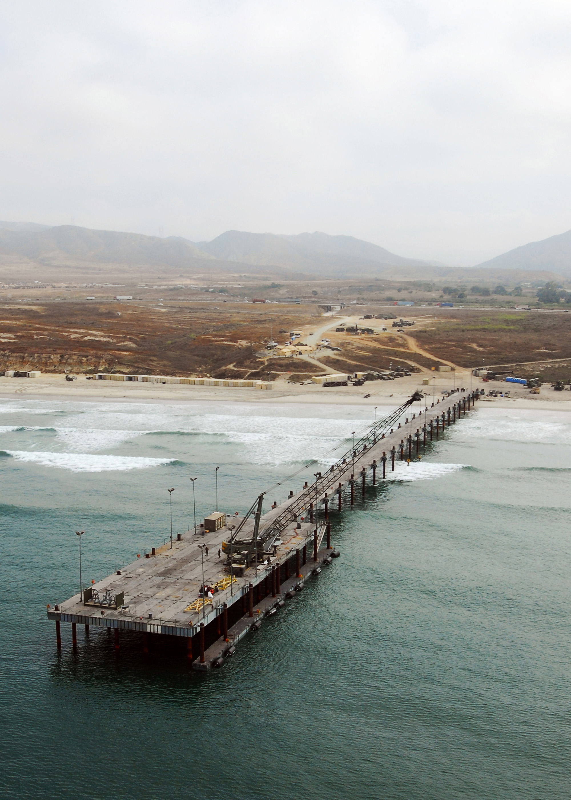 The Navy Elevated Causeway System is one of many pieces of equipment that will serve as part of the improvised port during Joint Logistics Over The Shore 2008. The crane on the ELCAS lifts the vehicles and containers from the lighterage and smaller ships and provides a conduit to the shore. JLOTS is an annual exercise that increases the Army's and Navy's ability to build improvised ports for transporting equipment from ship to shore when a harbor or pier has been damaged or is nonexistent. Nearly 1,500 pieces of rolling equipment and shipping containers will be moved from ships with a series of lighterage systems (floating roadways) and smaller boats to improvised piers on the shore. (U.S. Army photo by Sgt. Stephen Proctor, JLOTS Public Affairs)